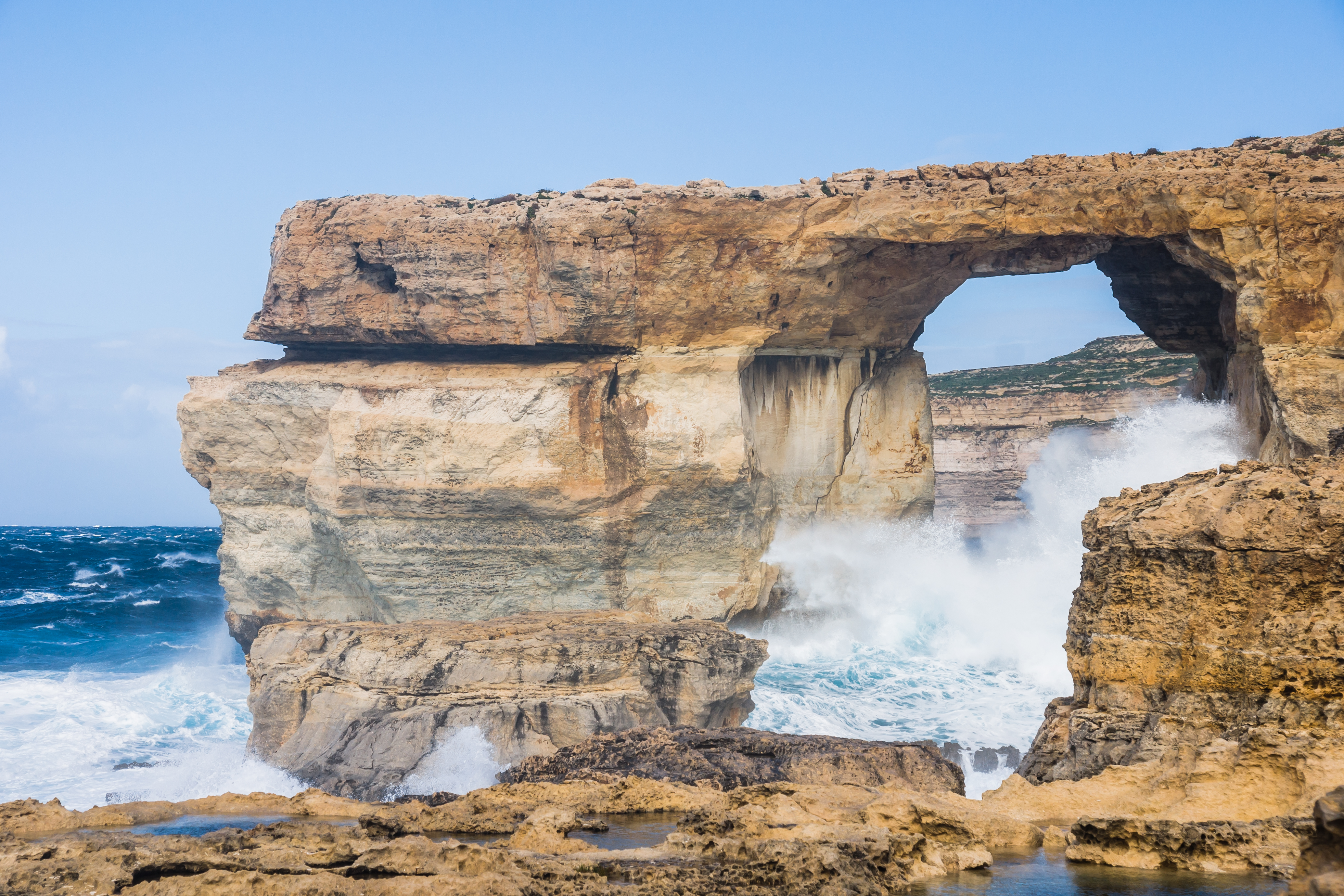 Gozo, Malta: Azure Window